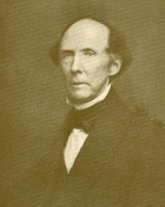 William C. Kittredge